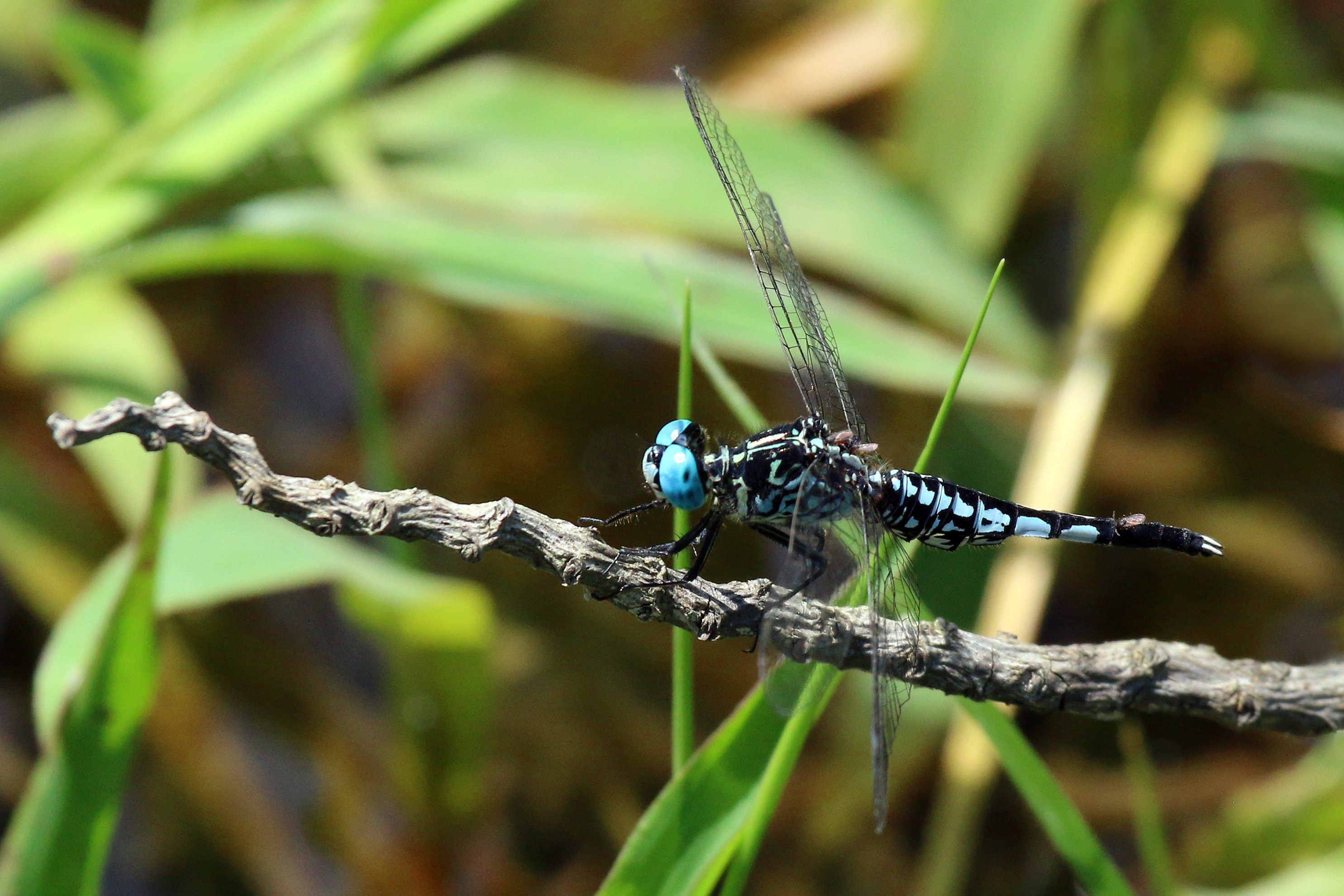 Trumpet tail (Acisoma panorpoides panorpoides) male, Singapore